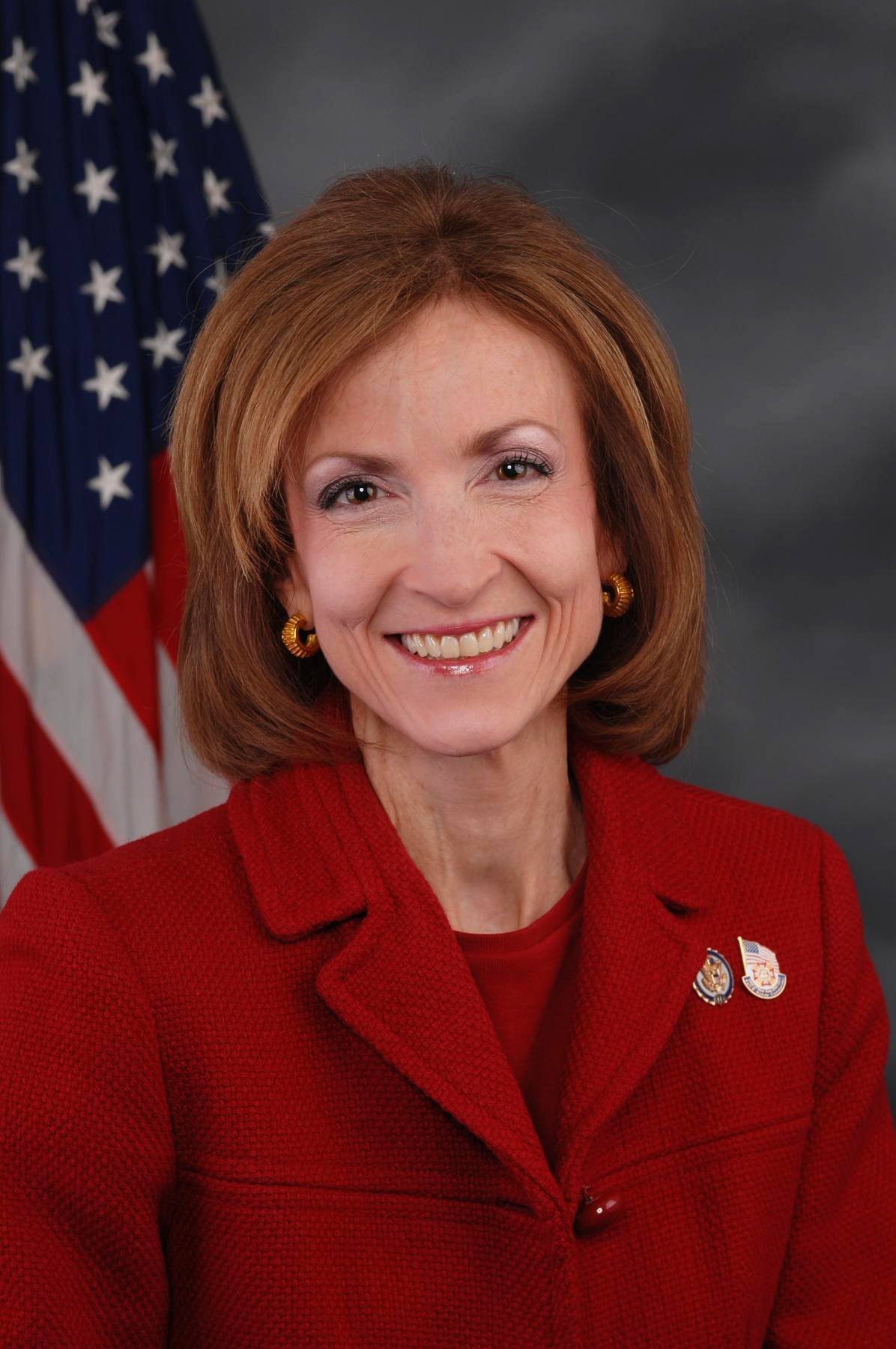 Nan Hayworth, member of the United States House of Representatives.